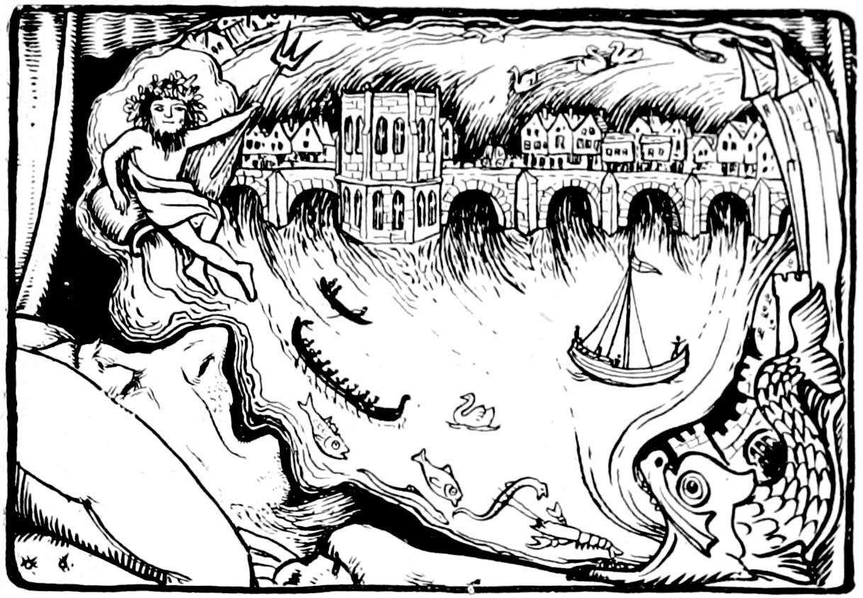 Scan illuatration on page of book in a series of fairy tales. A warning to children.